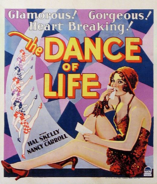 Poster del film The Dance of Life (1929).